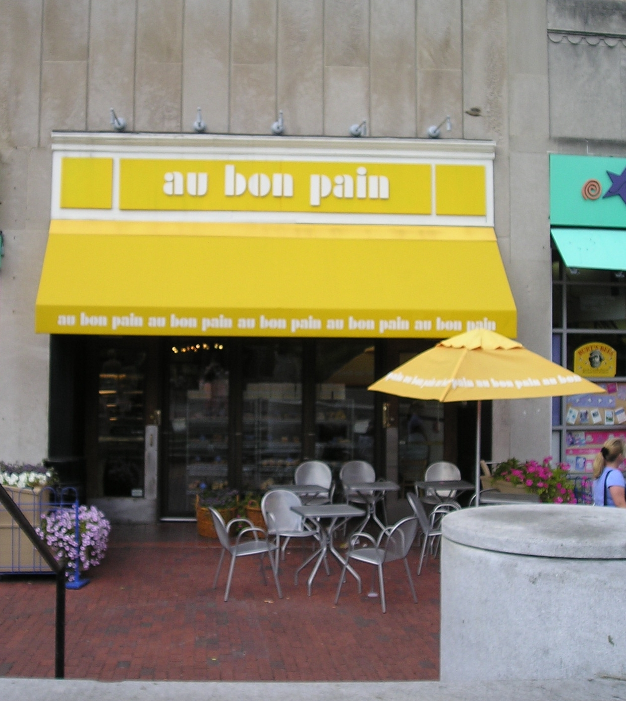 Au Bon Pain in Cambridge, Massachusetts